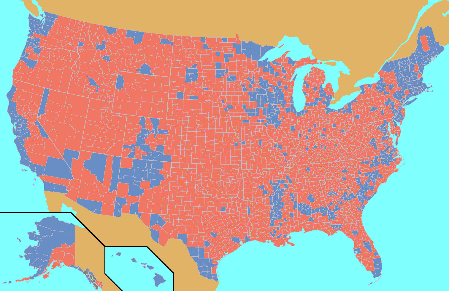 Results by county of the 2012 general election in the United States. County with plurality for Obama County with plurality for Romney Data unavailable or results still incomplete